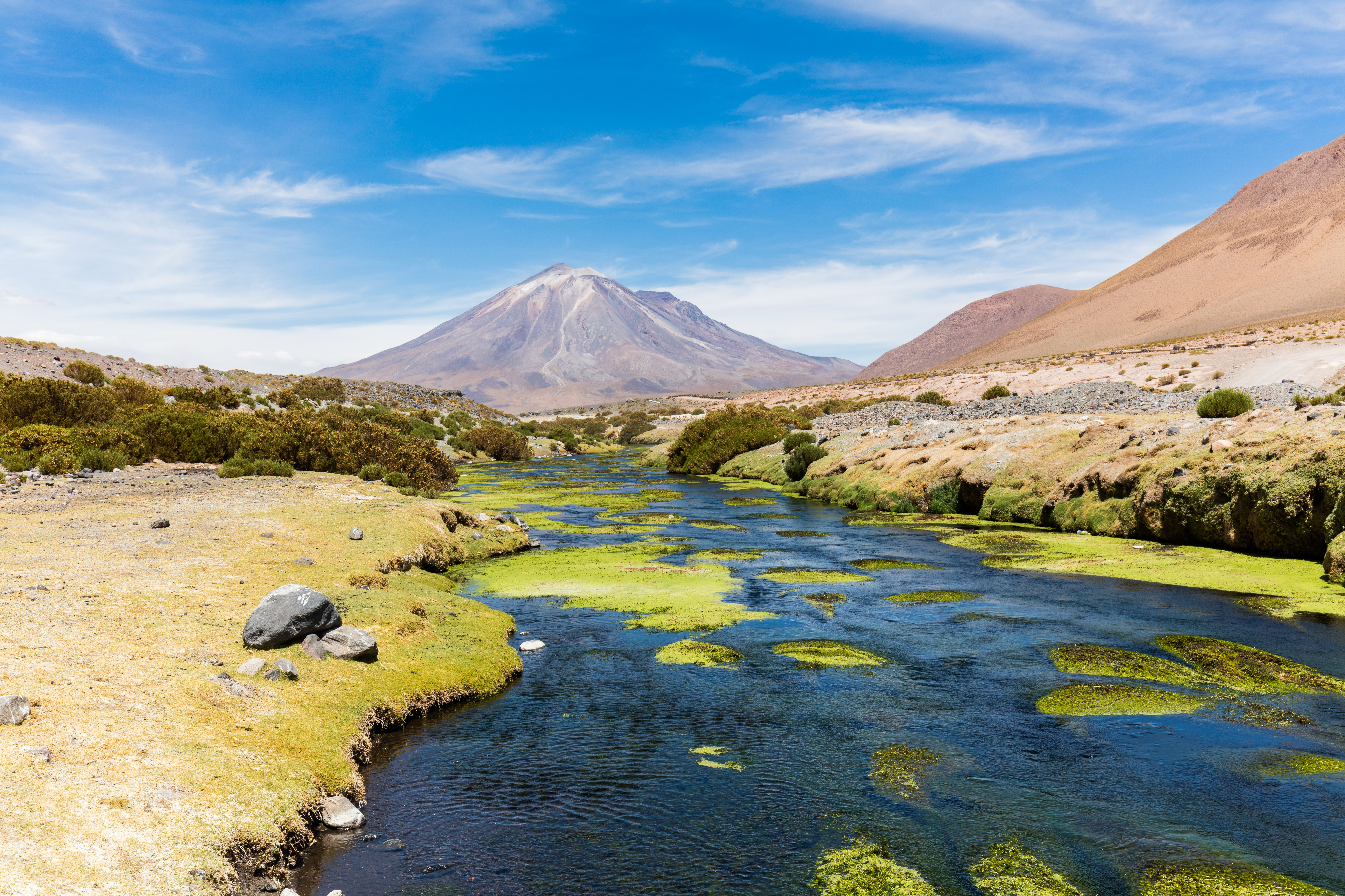 View of the San Pedro de Inacaliri River with the Paniri volcano in the background, El Loa Province, Antofagasta Region, northern Chile, close to the Bolivian border. Parini is a 5,960 metres (19,550 ft) high stratovolcano with a prominence of 1,653 metres (5,423 ft) whereas San Pedro River is a 76 kilometres (47 mi) long river in this extremely dry region ending in the Loa River.